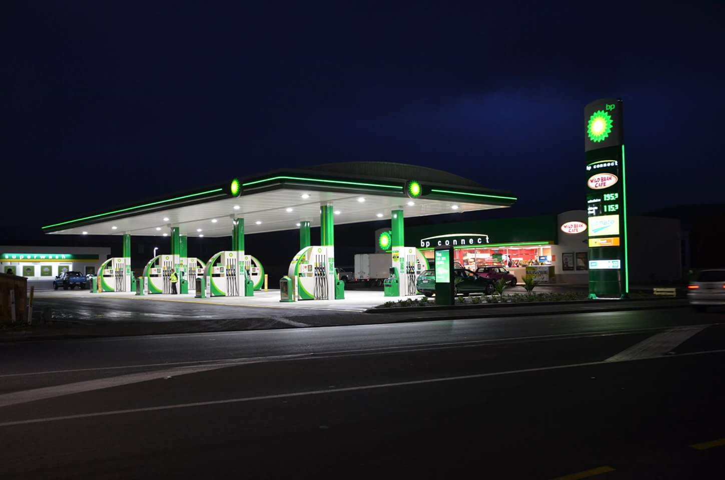 A modern BP filling station with Wild Bean Cafe, State Highway 1, Paraparaumu